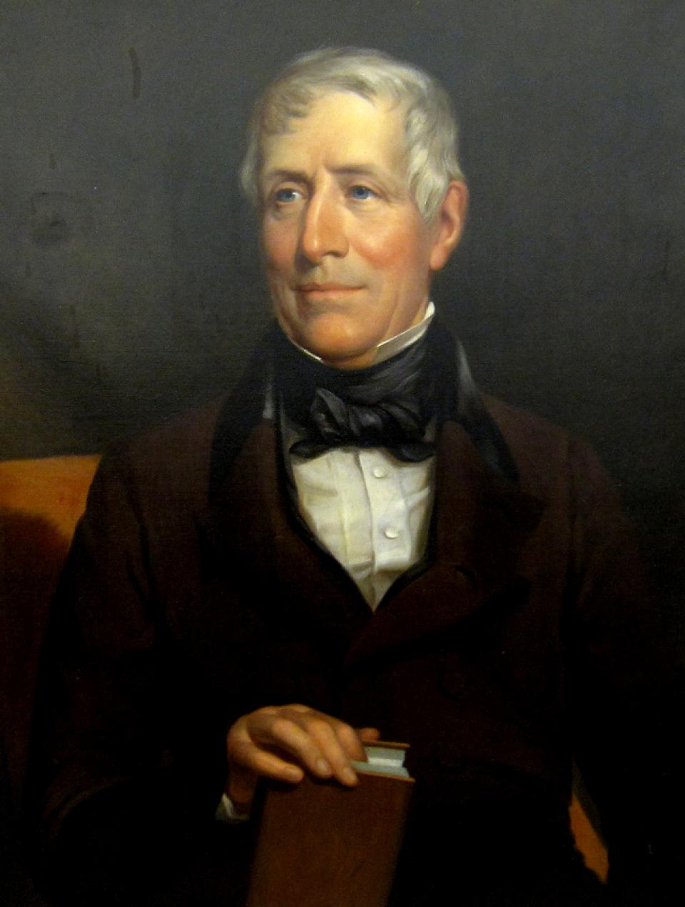 ca 1850, artist not identified.